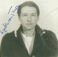 Agathe von Trapp in 1948 from her Declaration of Intention